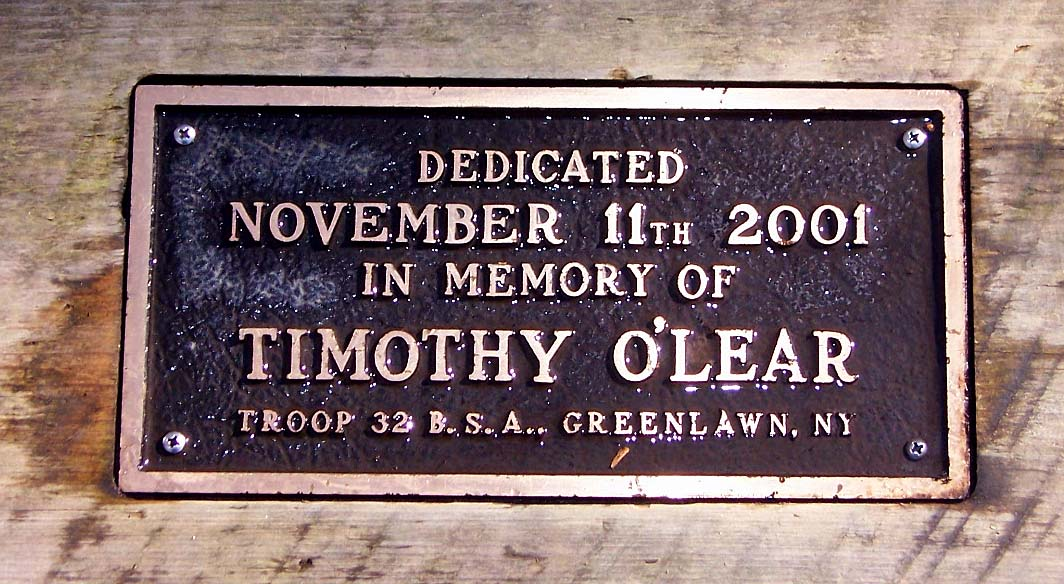 Photographed by Daniel Case 2005-11-12